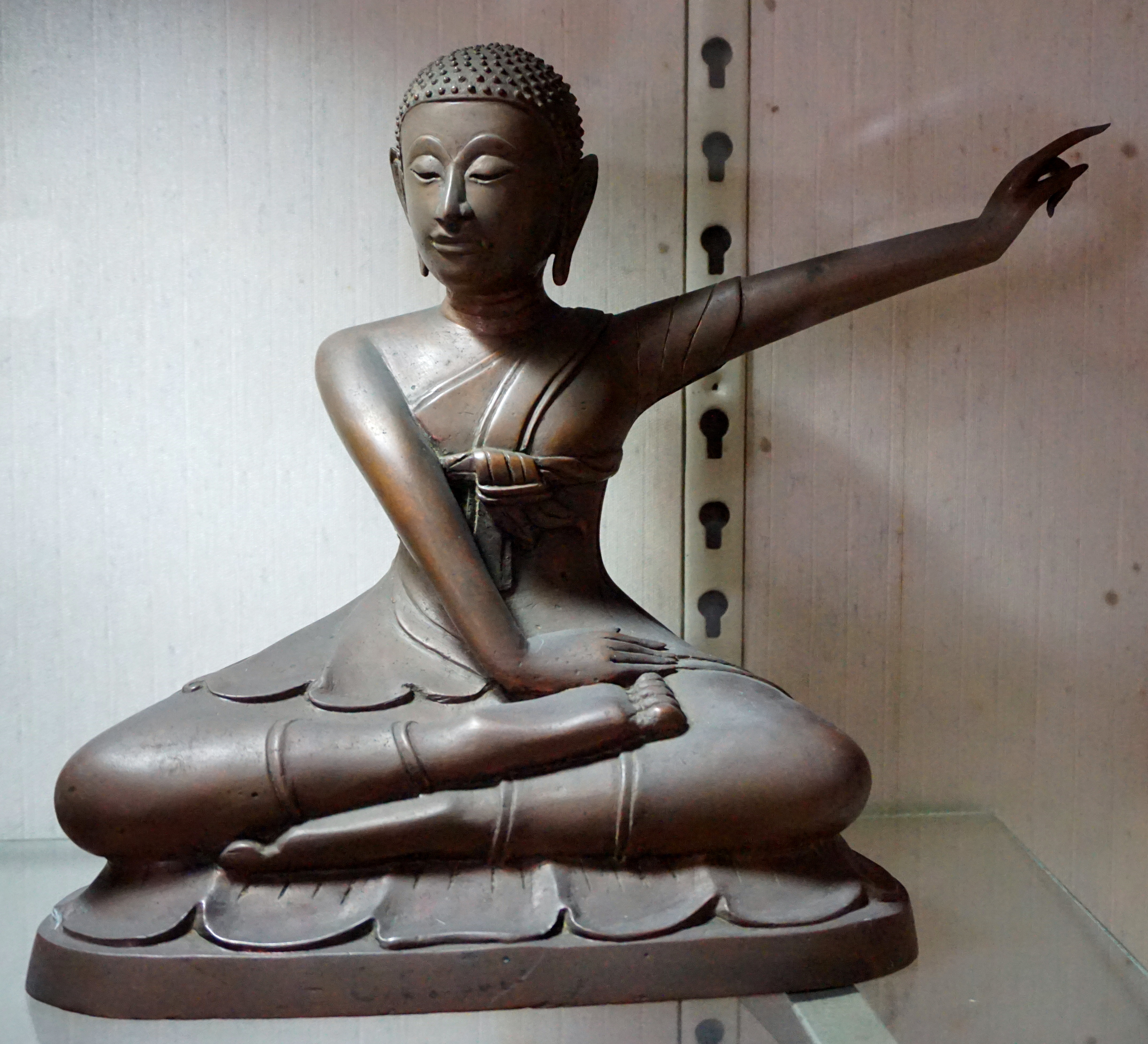 Photograph from the National Museum, Bangkok, Thailand